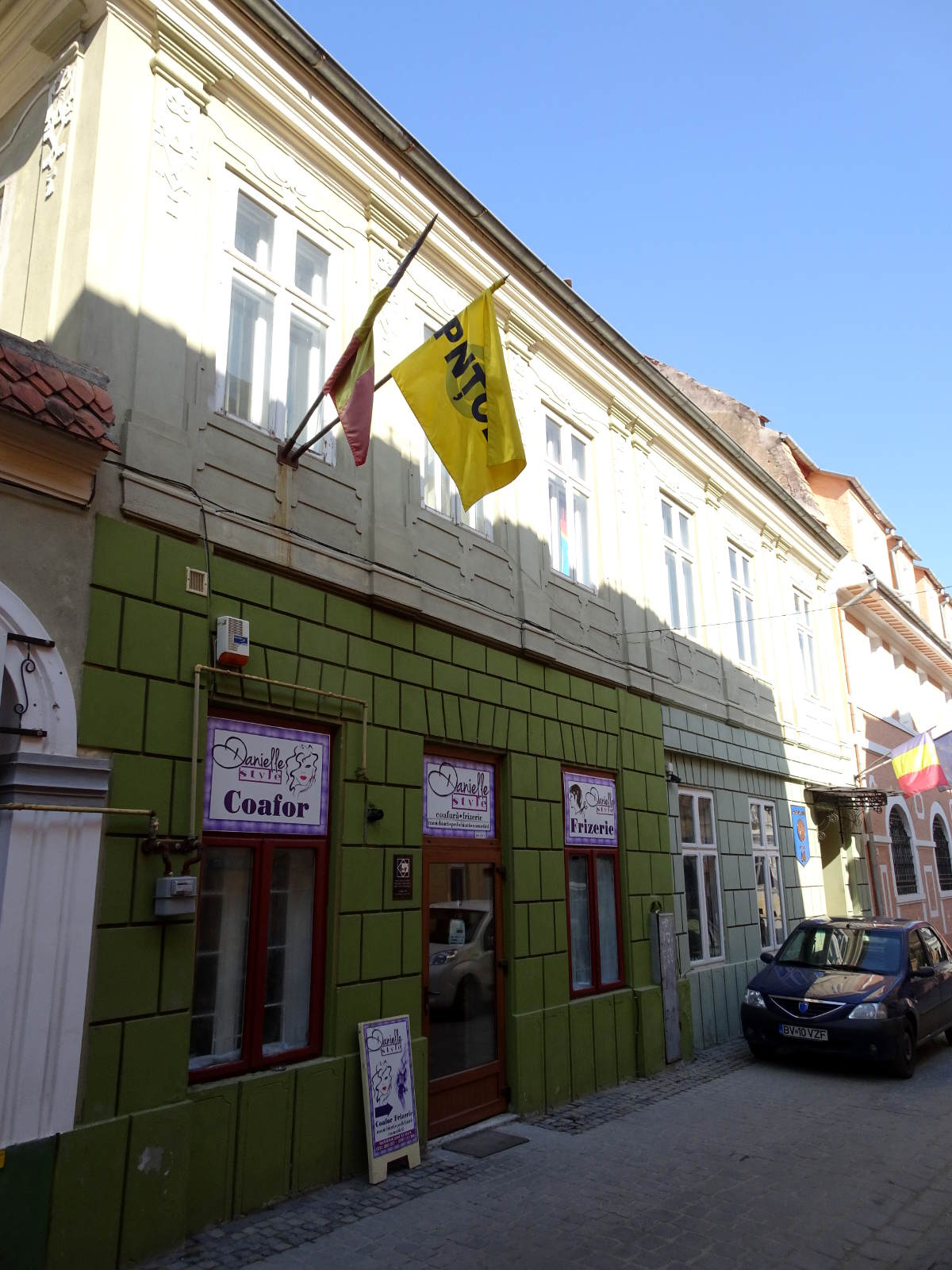 Piața Enescu in Brașov, house number 2